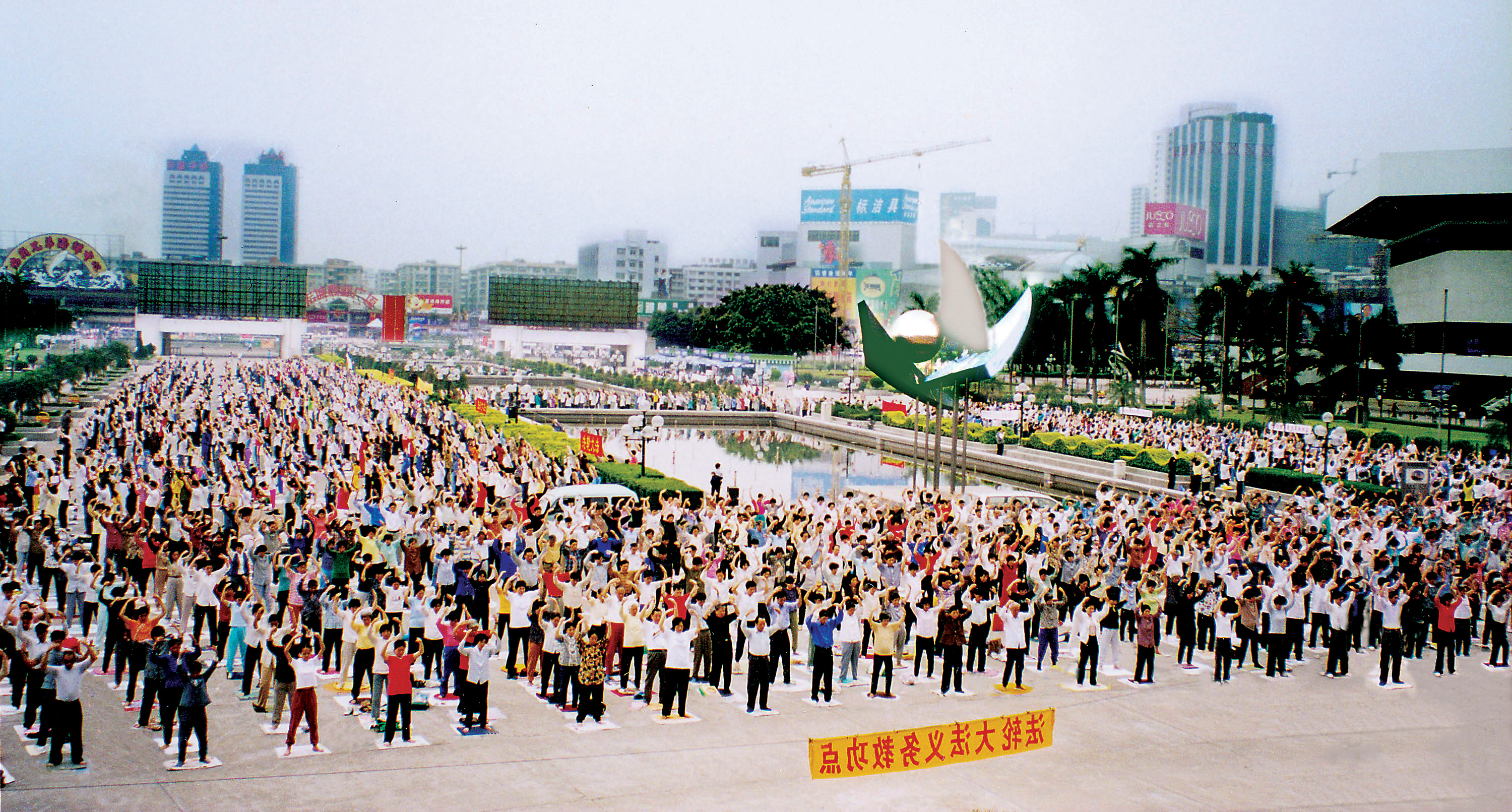 By the mid-1990s, Falun Gong exercise sites with thousands of participants, like this one in Guangzhou, were a common sight throughout China